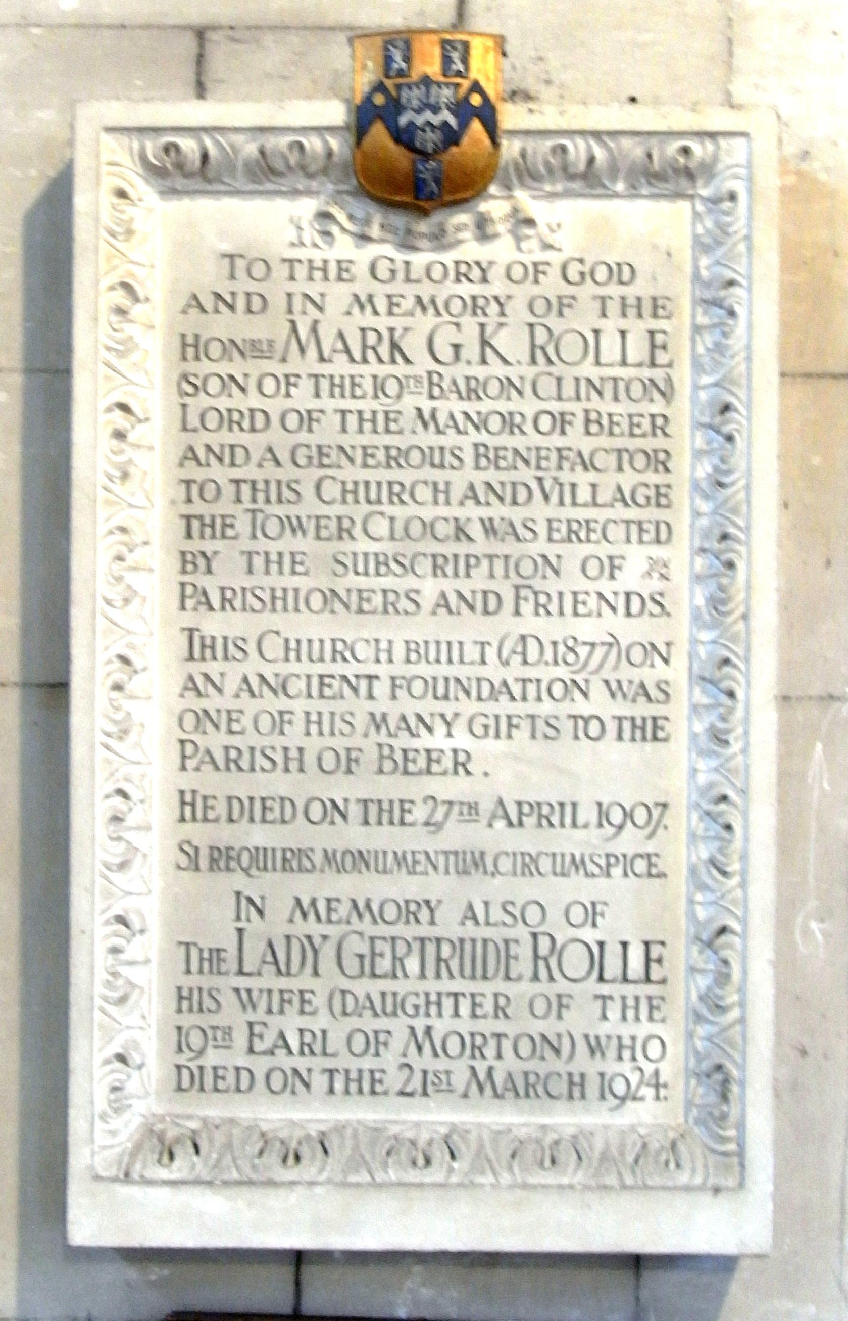 Memorial tablet to Hon. Mark Rolle, Beer Church, Devon. Text: "To the glory of God and in memory of the Hon.ble Mark G.K. Rolle (son of the 19th Baron Clinton) lord of the manor of Beer and a generous benefactor to this church and village. The tower clock was erected by subscription of parishioners and friends. This church (built A.D. 1877) on an ancient foundation was one of his many gifts to the parish of Beer. He died on the 27th April 1907. Si requiris monumentum circumspice. In memory also of the Lady Gertrude Rolle his wife (daughter of the 19th Earl of Morton) who died on the 21st March 1924". A memorial tablet exists in Beer Church, which he himself rebuilt, affixed to a north-west pier, with an inscription echoing that of Sir Christopher Wren in St Paul's Cathedral, built by him: "To the glory of God and in memory of the Hon.ble Mark G.K. Rolle (son of the 19th Baron Clinton) lord of the manor of Beer and a generous benefactor to this church and village. The tower clock was erected by subscription of parishioners and friends. This church (built A.D. 1877) on an ancient foundation was one of his many gifts to the parish of Beer. He died on the 27th April 1907. Si requiris monumentum circumspice.[1] In memory also of the Lady Gertrude Rolle his wife (daughter of the 19th Earl of Morton) who died on the 21st March 1924". The armorials show Rolle with an inescutcheon of pretence of Walter of Sarsden, indicating the marriage of John Rolle (1679-1730), MP, of Stevenstone, grandfather of Lord Rolle, to the heiress of that family, Isabella Walter. These arms are also visible impaled by Rolle on the Georgian "Library Room" still surviving at Stevenstone.